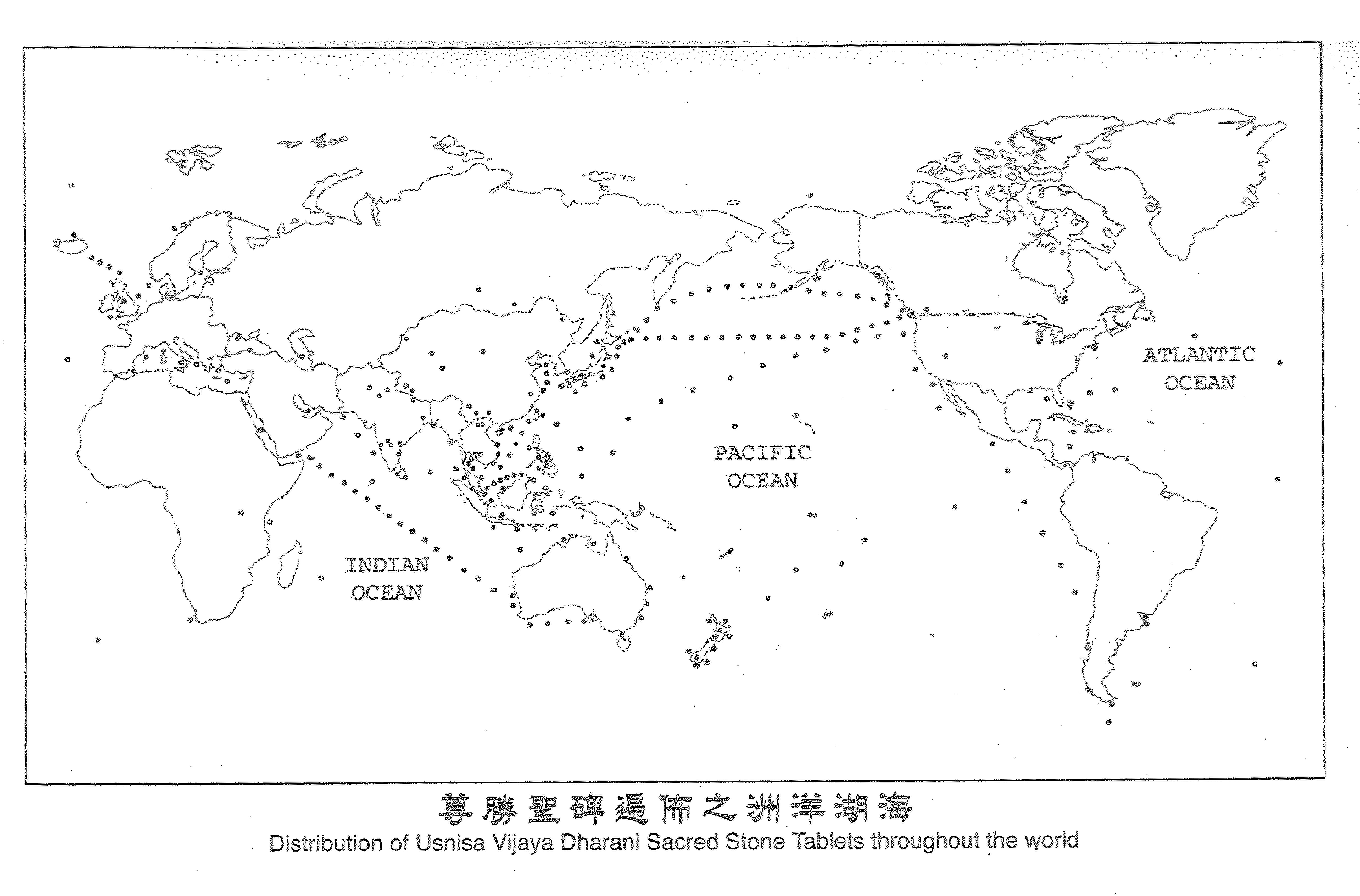 Scanned Version of Distribution of Usnisa Vijaya Dharani Sacred Stone Tablets Throughout the world.